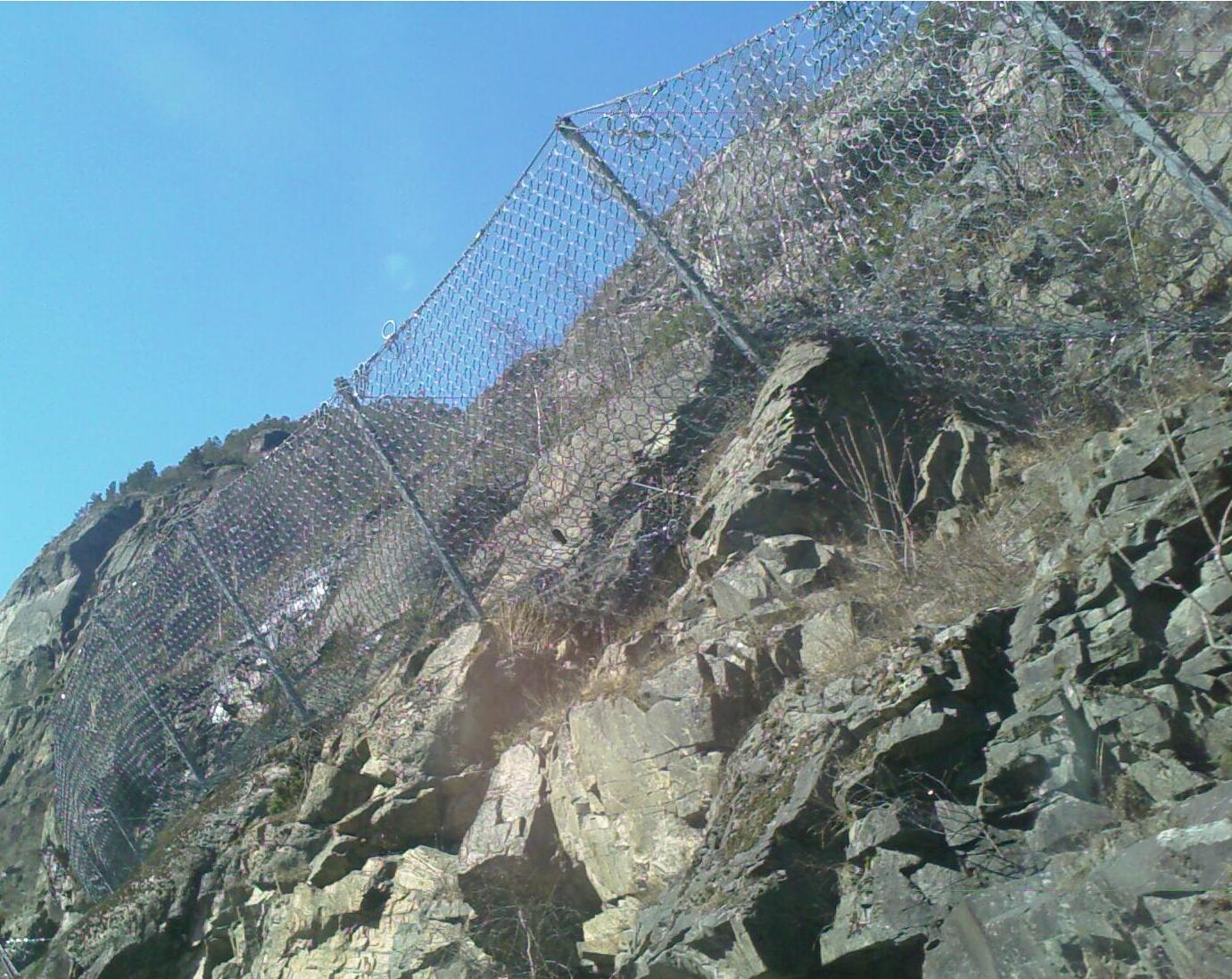 Rockslide protection near Vassbygdi in Aurland, Norway.